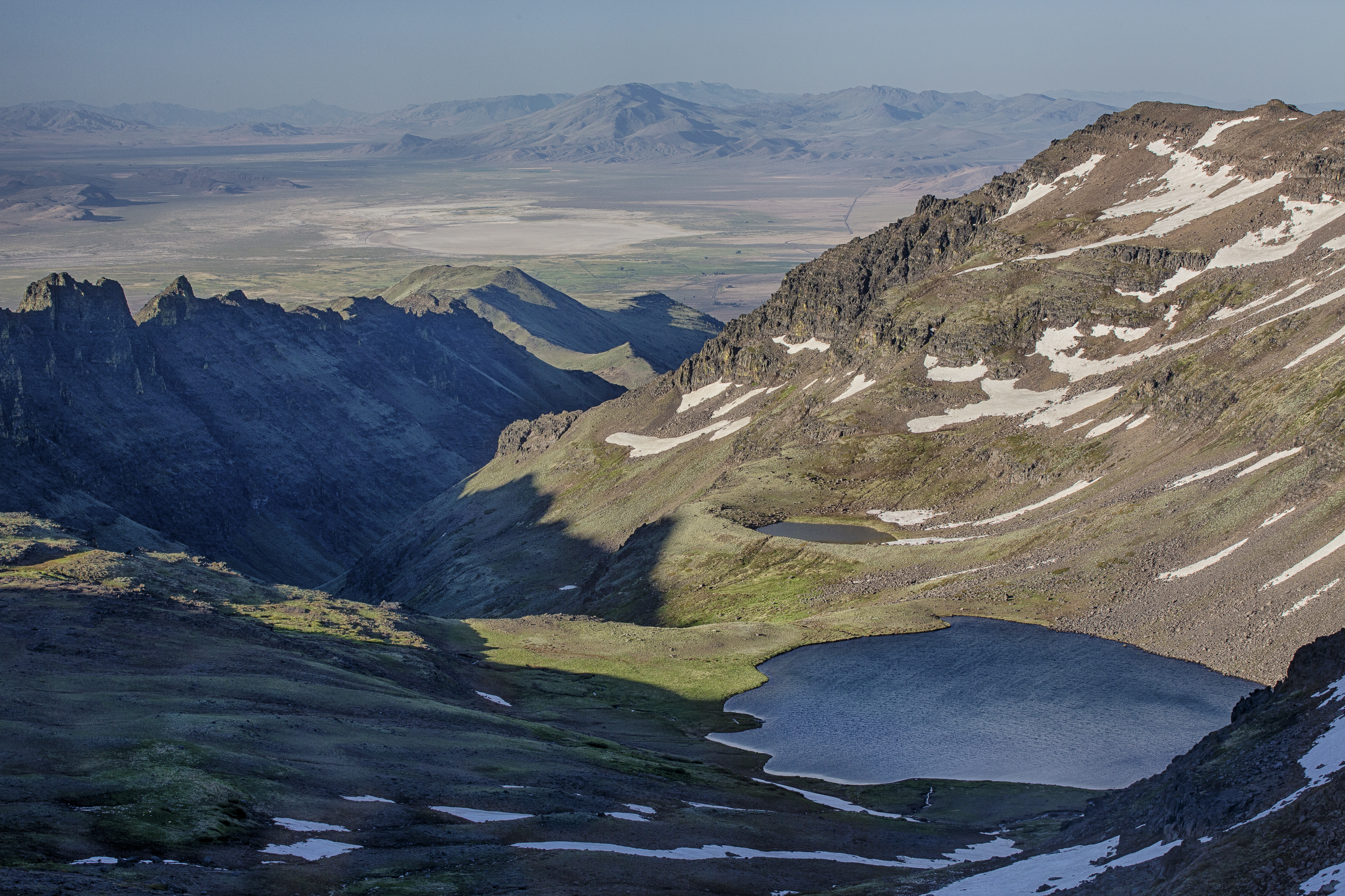 The Steens Mountain area offers an extraordinary landscape of volcanic uplifts, deep glacier-carved gorges, stunning scenery, wilderness, wild rivers, and a rich diversity of plant and animal species. The 52-mile Steens Mountain Backcountry Byway provides access to four campgrounds and the views from Kiger Gorge, East Rim, Big Indian Gorge, Wildhorse and Little Blitzen Gorge overlooks are not to be missed! Plan your next trip here!